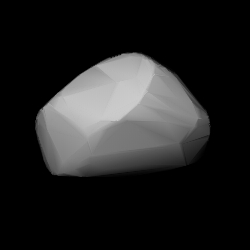 3D convex shape model of 1276 Ucclia, computed using light curve inversion techniques. J. Hanuš, J. Ďurech, M. Brož, B. D. Warner (June 2011). "A study of asteroid pole-latitude distribution based on an extended set of shape models derived by the lightcurve inversion method". Astronomy and Astrophysics 530: A134. ISSN 0004-6361. arXiv